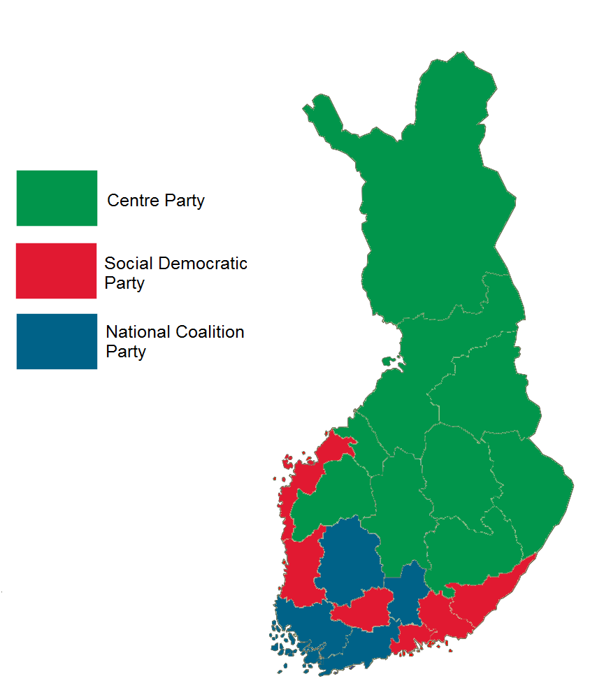 Finnish parliamentary election results by province, 2007